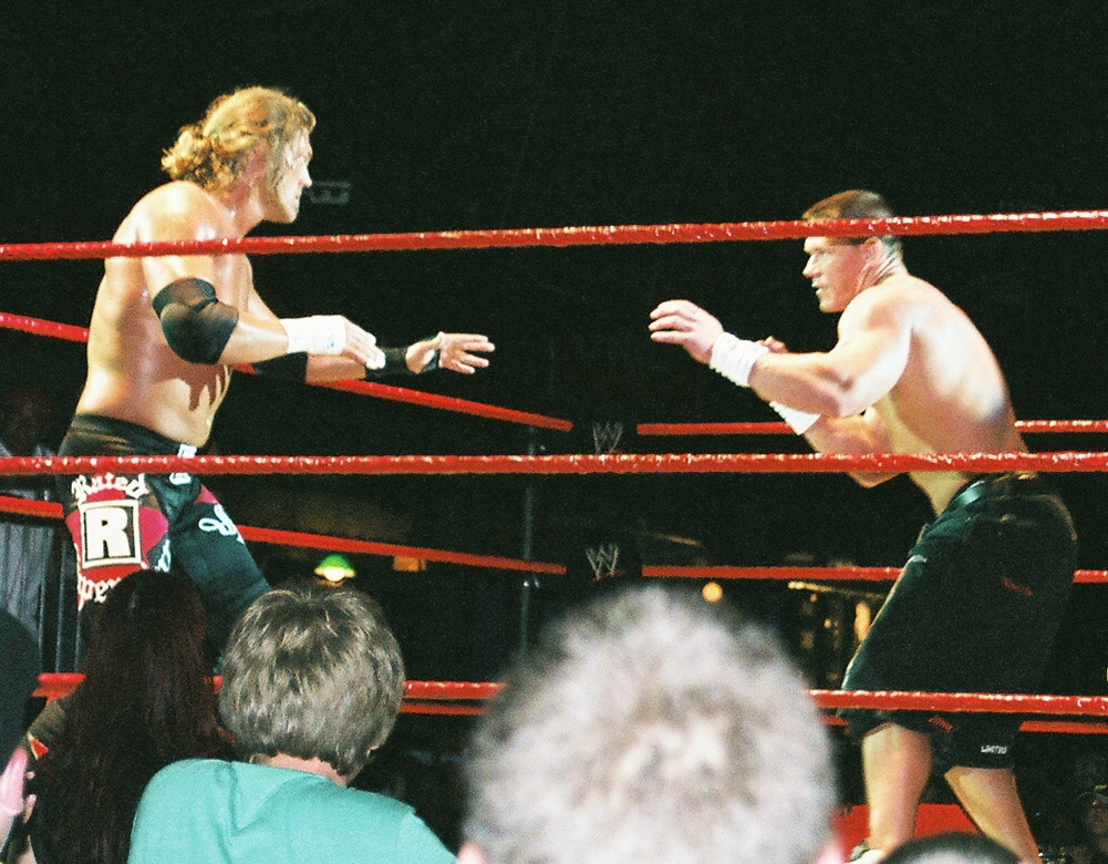 Edge vs. John Cena at a WWE showCena and Edge Face Off